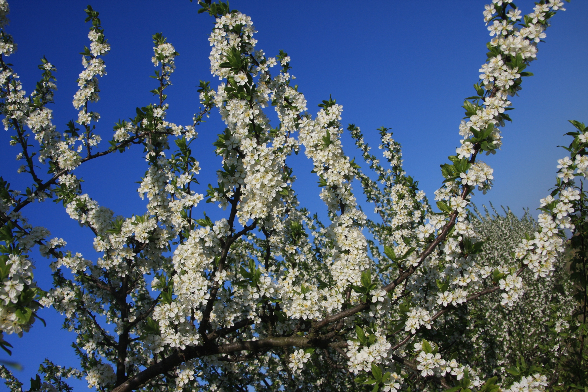 Flowering cherry Újfehertoi Fürtos